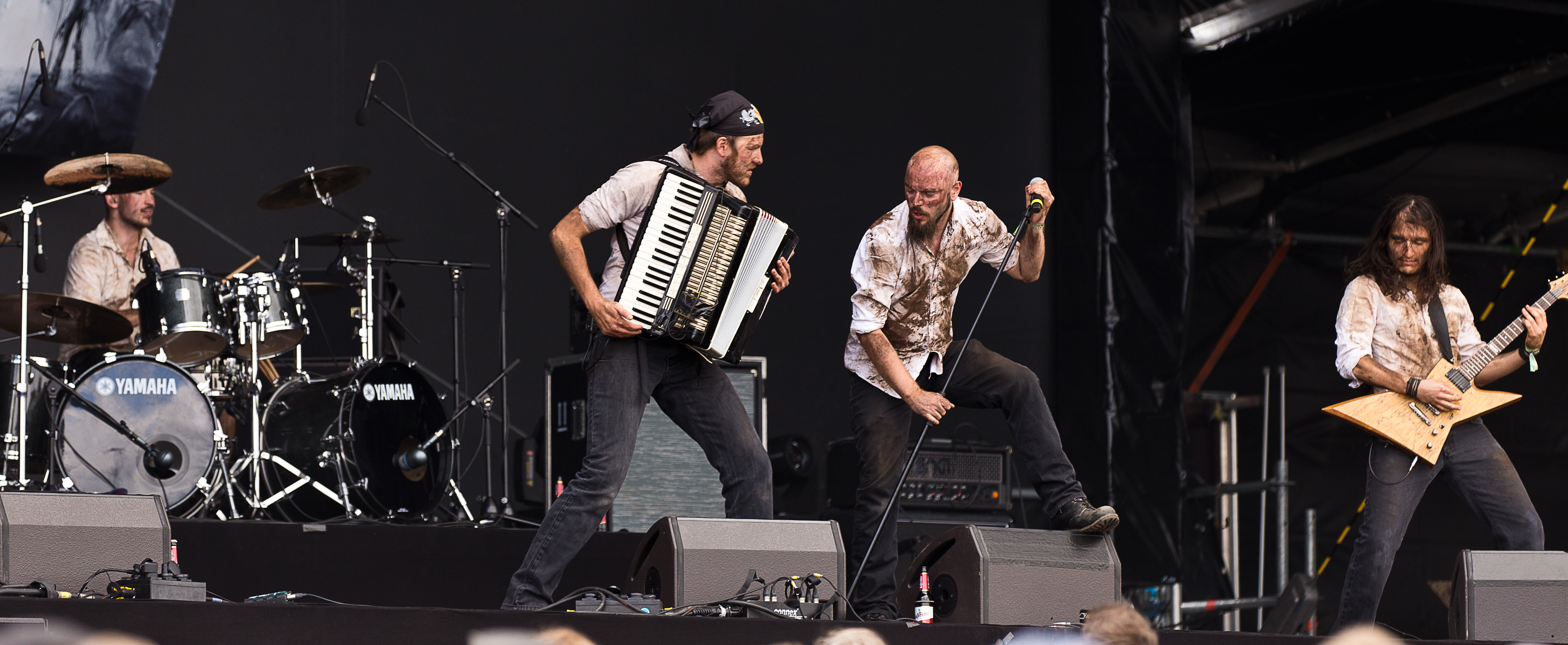 The German pagan metal band Finsterforst at the Rockharz Open Air 2015 in Ballenstedt/Germany.